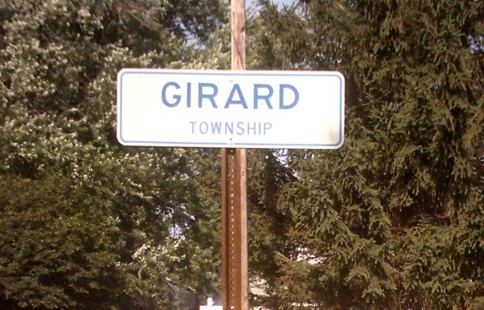 Girard Township, Pennsylvania sign in Erie County